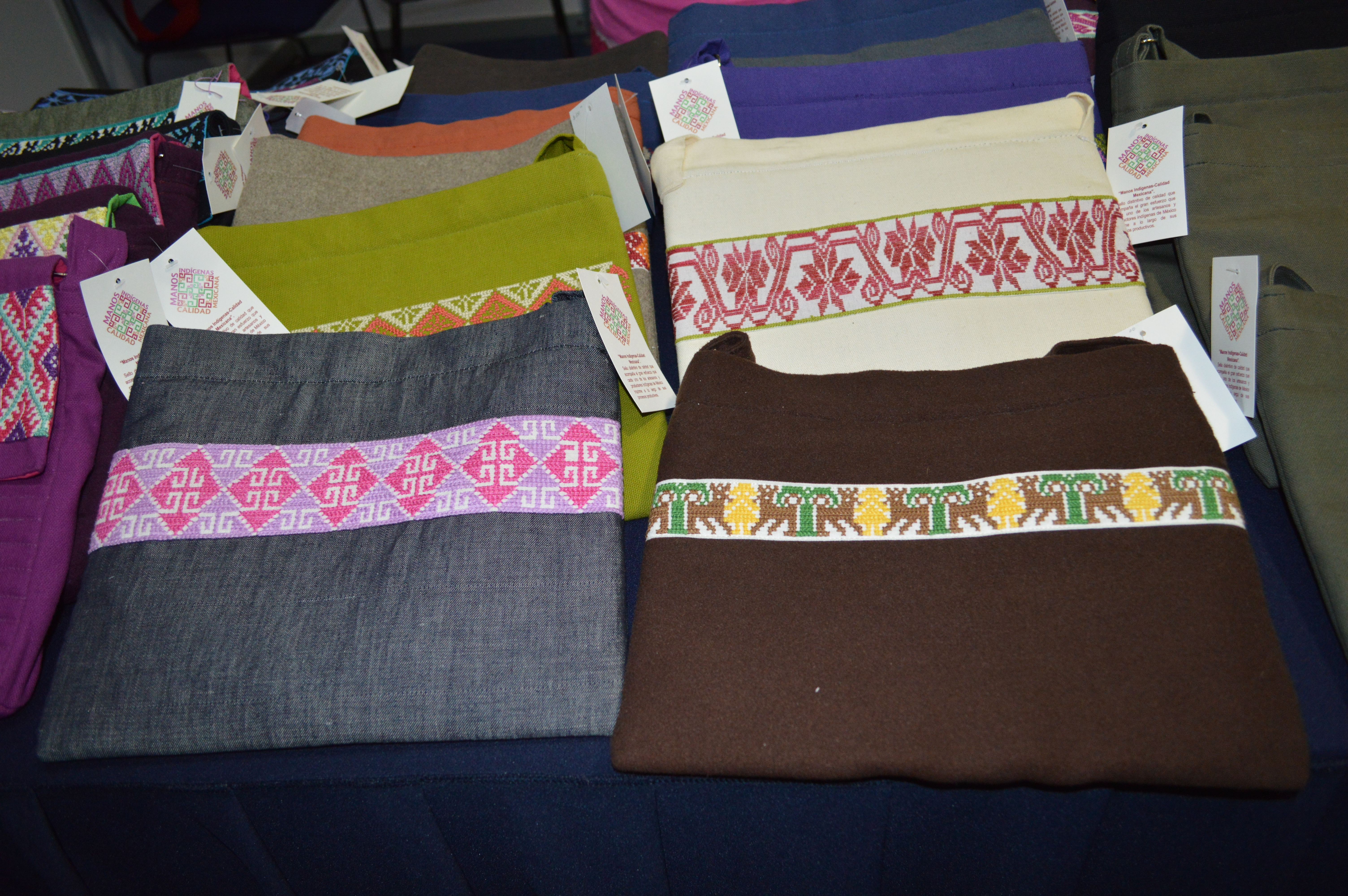 Mazahua textiles from Villa Victoria, Mexico State at the Expo de los Pueblos Indígenas in Mexico City